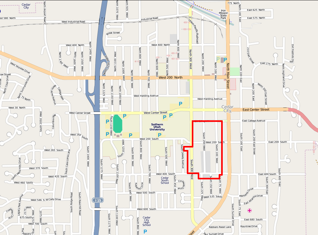 Cedar City Historic District location in Cedar City, Utah This map may be incomplete, and may contain errors. Don't rely solely on it for navigation.